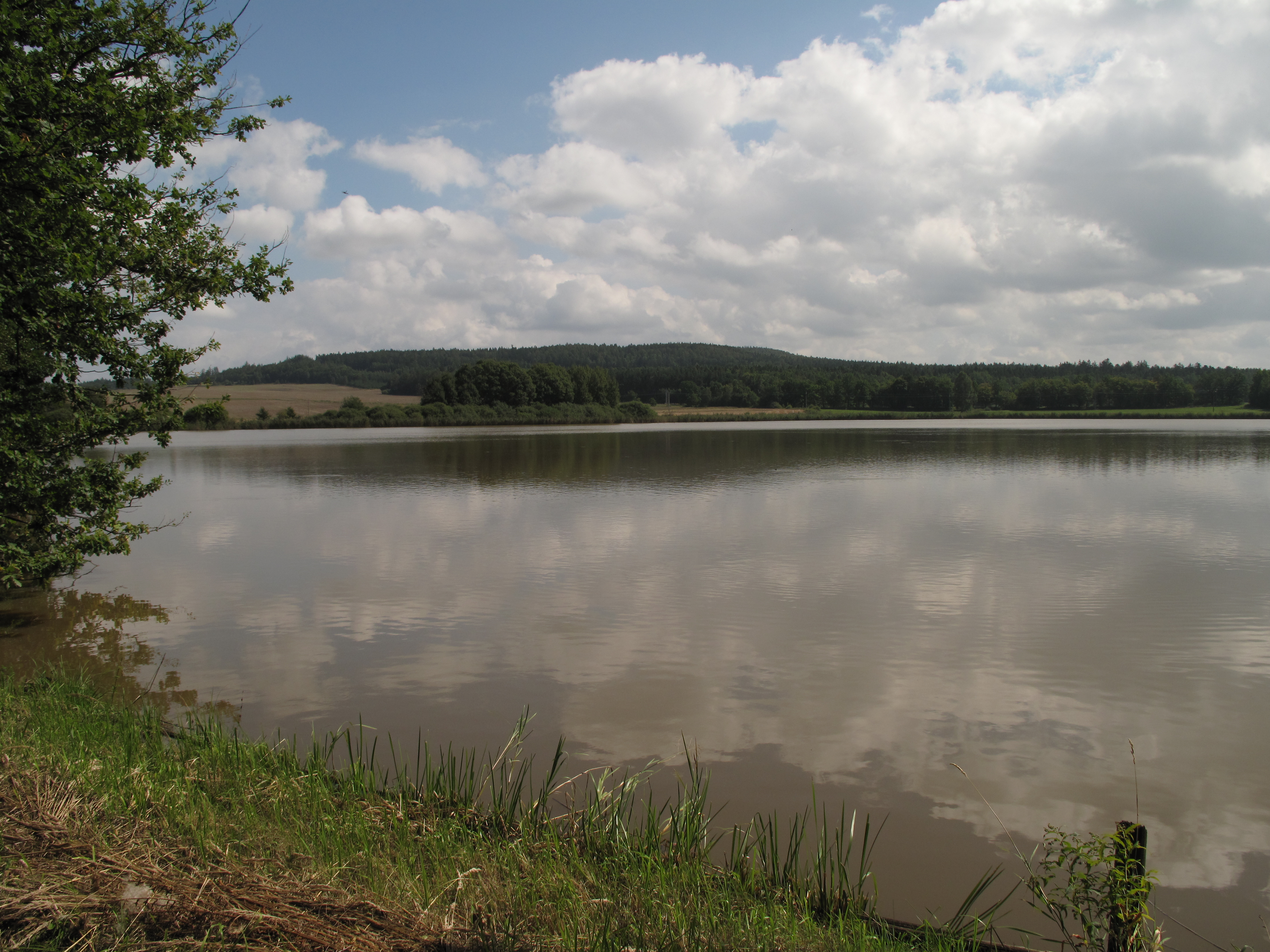 Hořejší Kařezský rybník as seen from dike, Kařezské rybníky natural monument, Rokycany District, Czech Republic. Project: Vodstvo